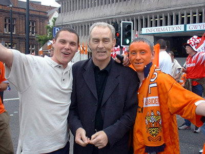 Billy Ayre with Neil Smith (In Blackpool Shirt) & friend, prior to the Seasiders' play-off final against Leyton Orient at the Millennium Stadium in Cardiff, Wales.